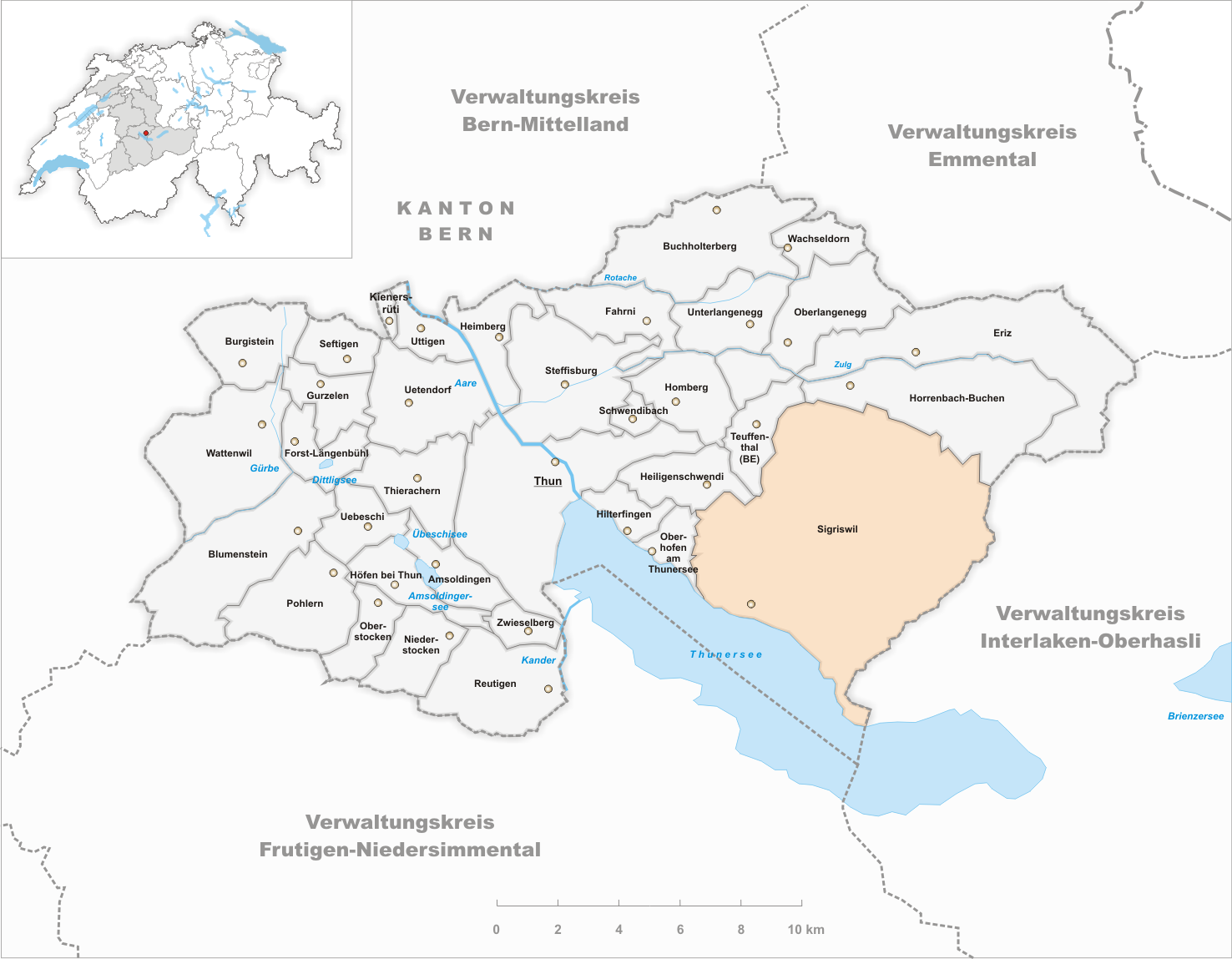 Municipality Sigriswil